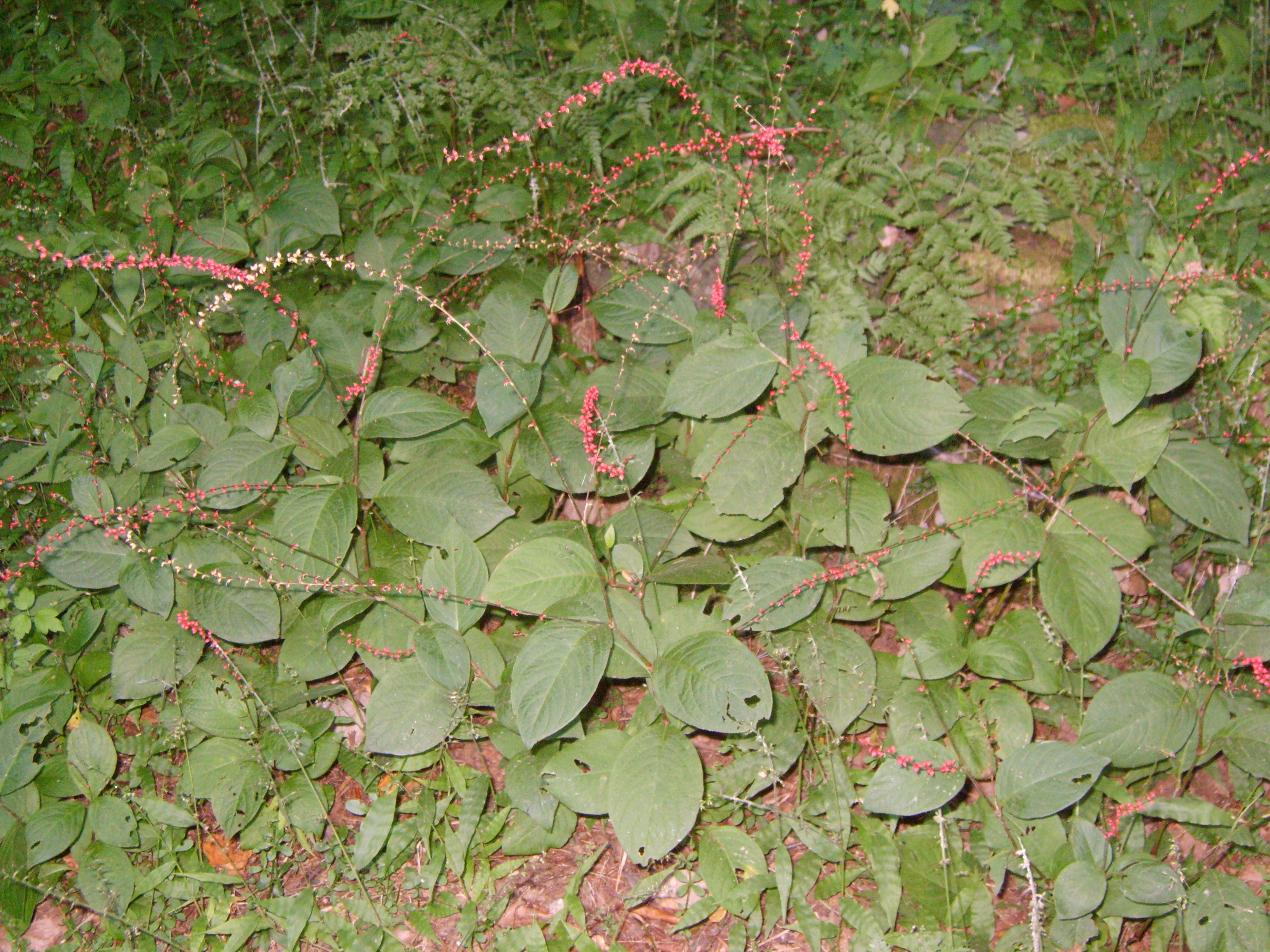 Persicaria filiformis in Jeondeungsa, Korea